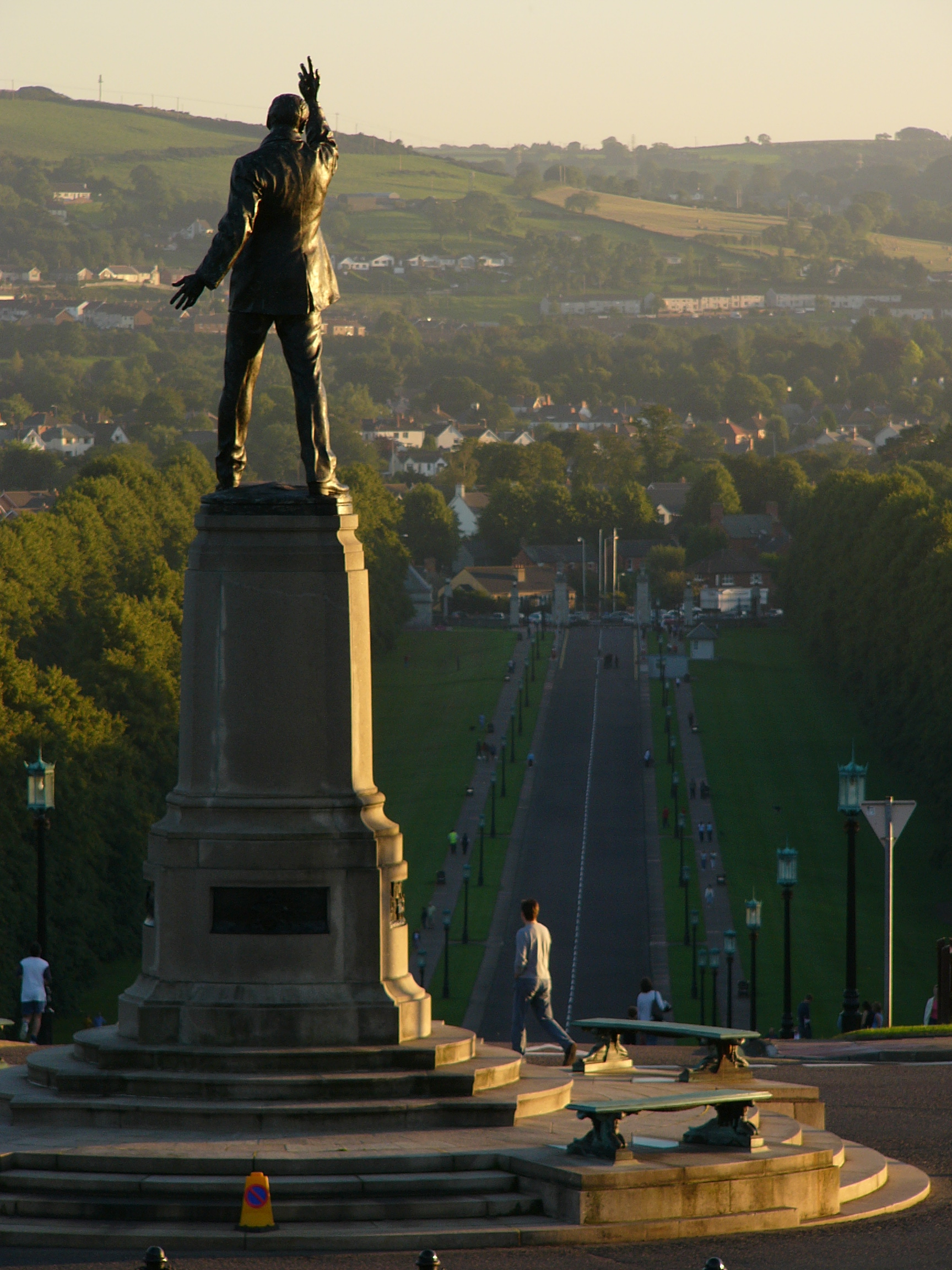 View from Stormont, with Edward Carson statue